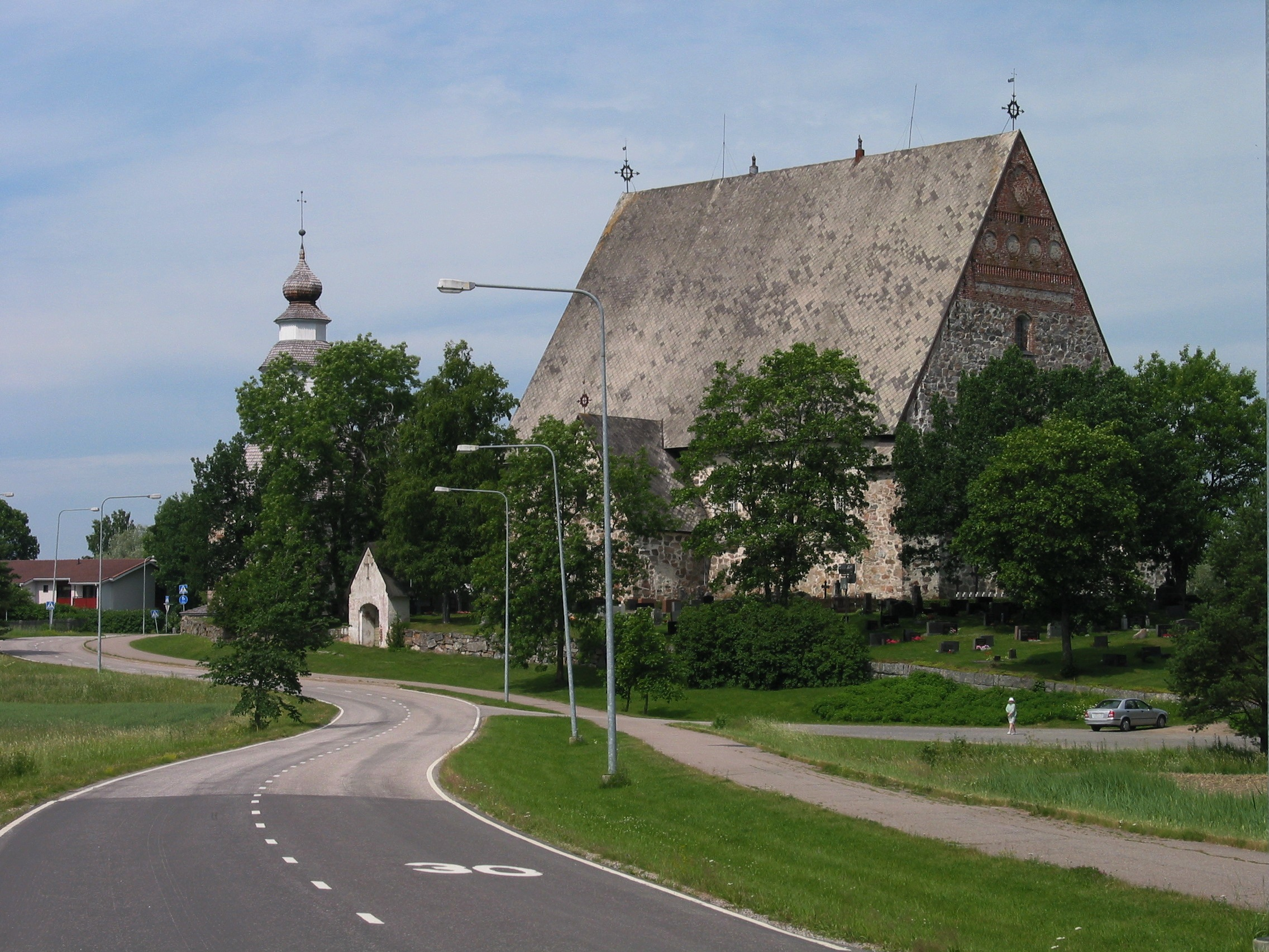 Sauvo Church, 15th century, Sauvo, Finland